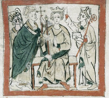 Coronation of Edward the Confessor